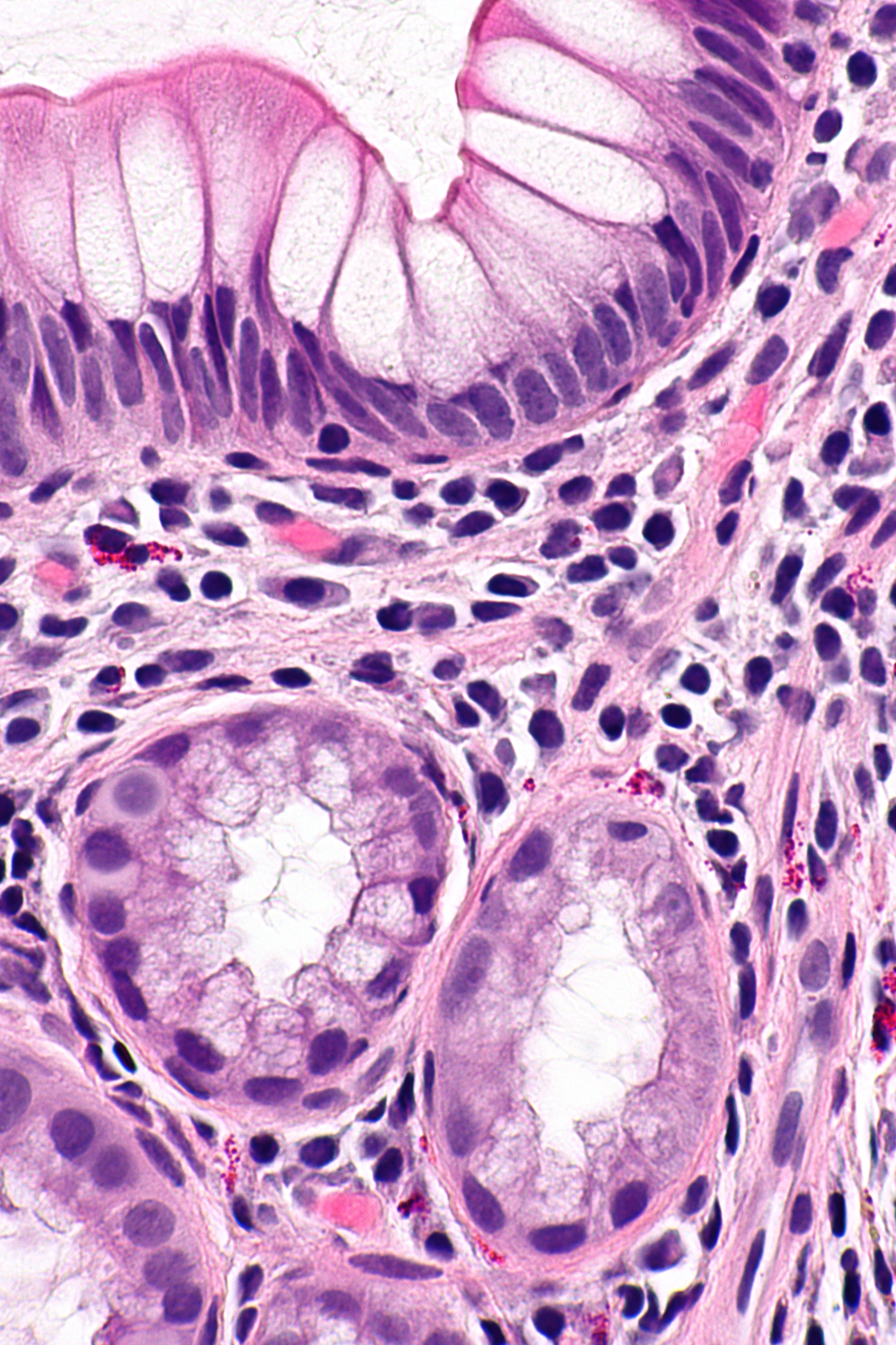 Micrograph of pyloric gland metaplasia, abbreviated PGM. It is also known as pseudopyloric mucous glands, abbreviated PMG. H&E stain. Biopsy of the terminal ileum. Related images PMG - intermed. mag. PMG - intermed. mag. PMG - high mag. PMG - high mag. PMG - very high mag. PMG - high mag. PMG - high mag. PMG - very high mag.